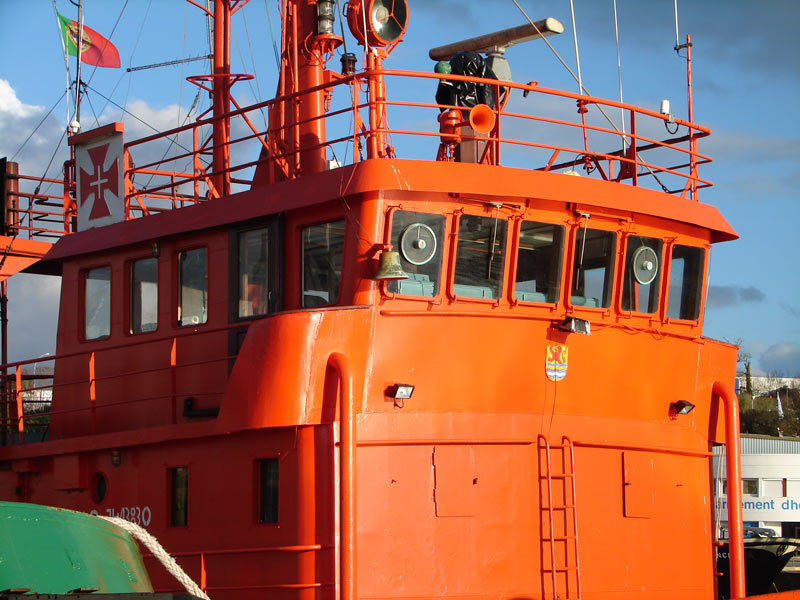 Navigation bridge of the tugboat Leao Dos Mares in Concarneau. LEAO DOS MARES : Call Sign: HO2038 ; Gross tonnage: 279 ; Tug ; Year of build: 1975 ; Flag, Panama Registered owner and ship manager : FALCON SHIPPING FZC, Ras al Khaimah, UNITED ARAB EMIRATES.